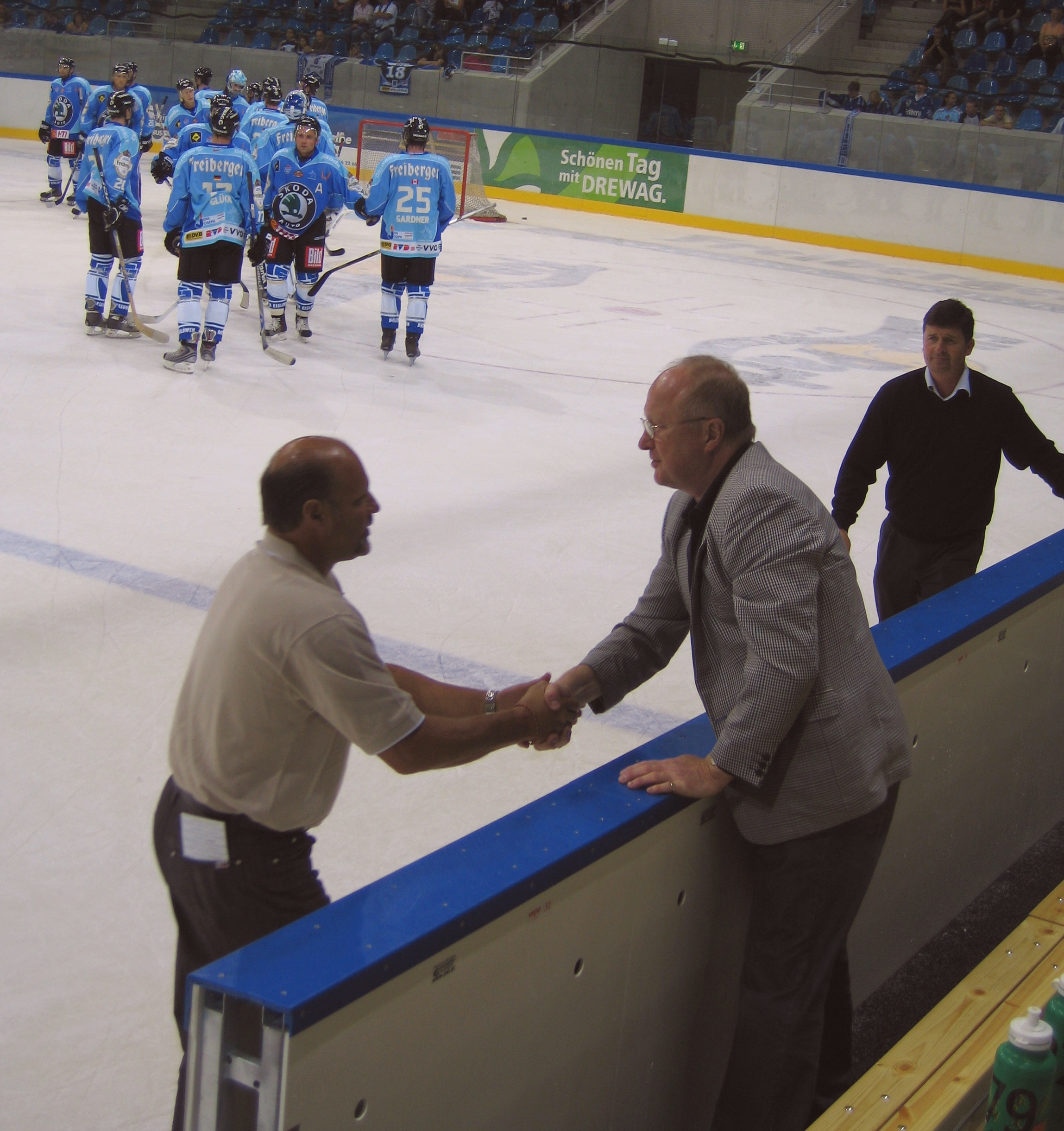 Marian Hurtik, trainer and Jan Tabor, manager of ESC Dresdner Eislöwen